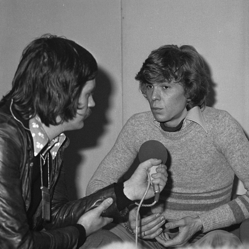 Interview with Jürgen Marcus at the day of the Eurovision Song Contest 1976